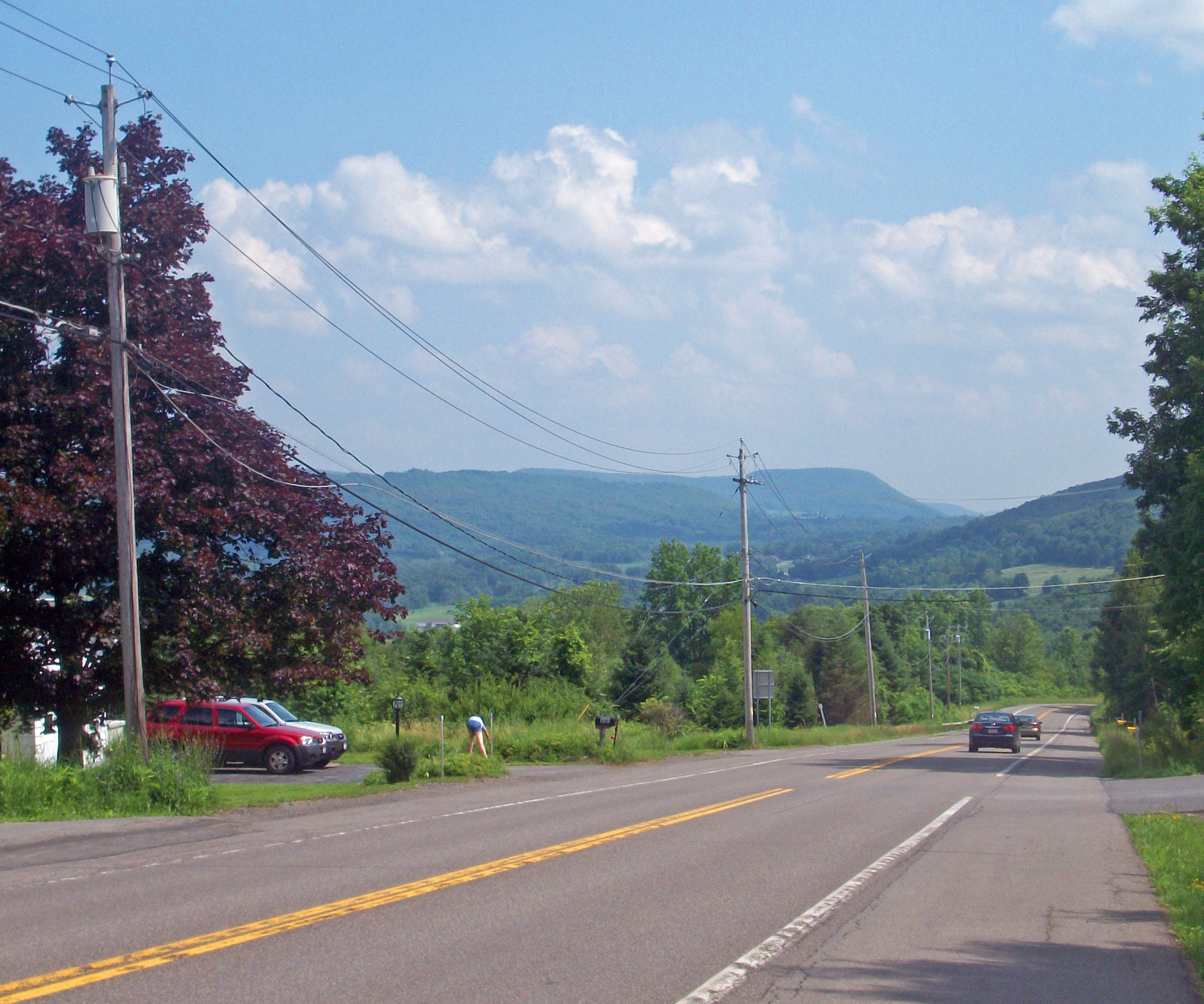 View along eastbound US 20 at Big Bend, NY, USA